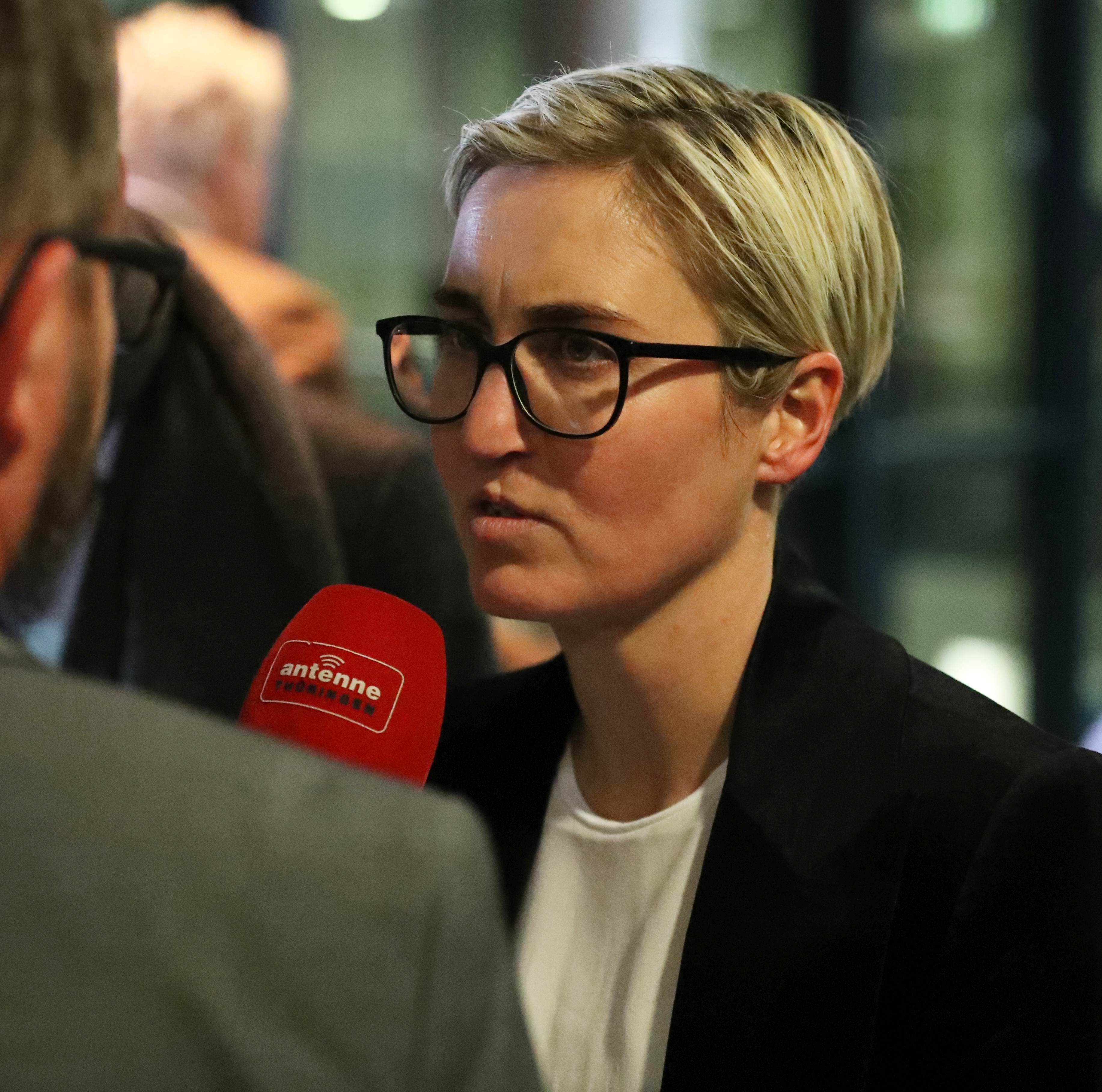 Election night Thuringia 2019: Susanne Hennig (Die Linke)